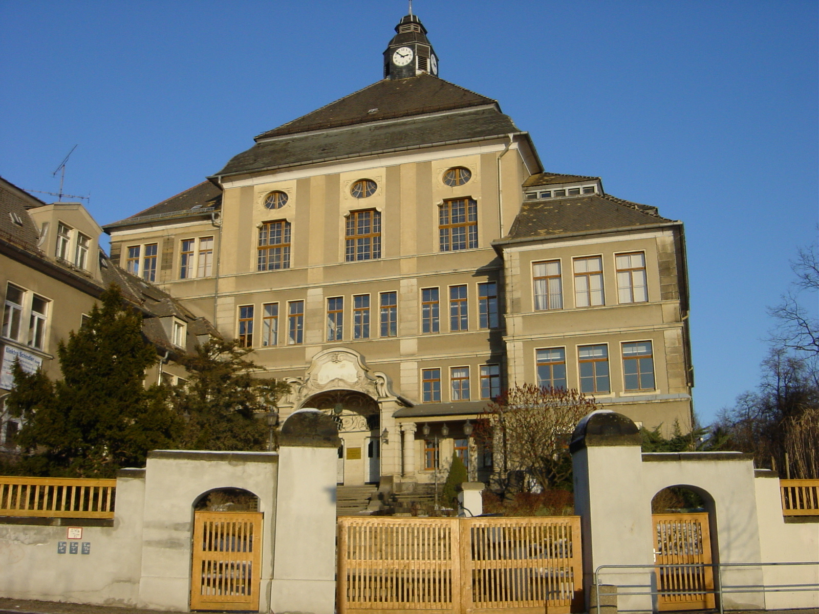 The secondary school "Gymnasium Am Breiten Teich" in the town of Borna.